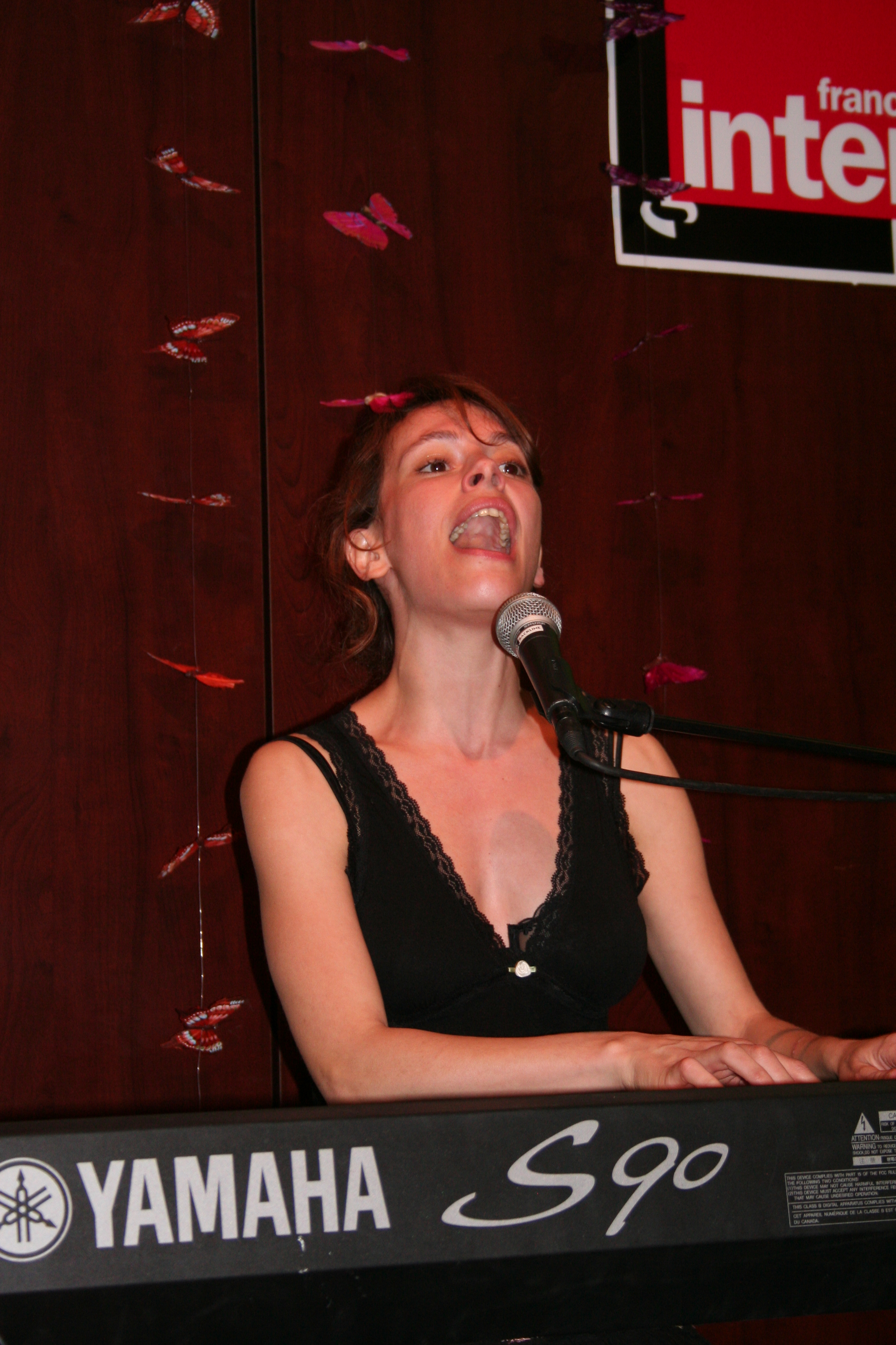 Show-case with Emily Loizeau at Fnac Italie (Paris, France).